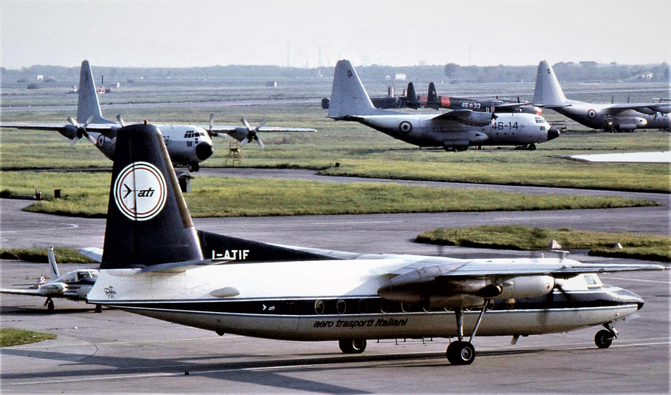 Aero Trasporti Italiani Fokker F27 Friendship 200, I-ATIF, c/n 10321. First flight as PH-FKR. Here is taken at Pisa Galileo Galilei Airport with the C-130 Hercules and C-119 Flying Boxcar in the background.